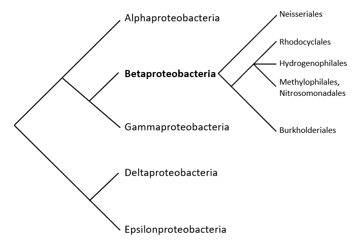 A simple version of Betaproteobacteria phylogeny, based on phylogenetic relationships outlined in The Prokaryotes, Volume 5 (3rd ed.) pg 10